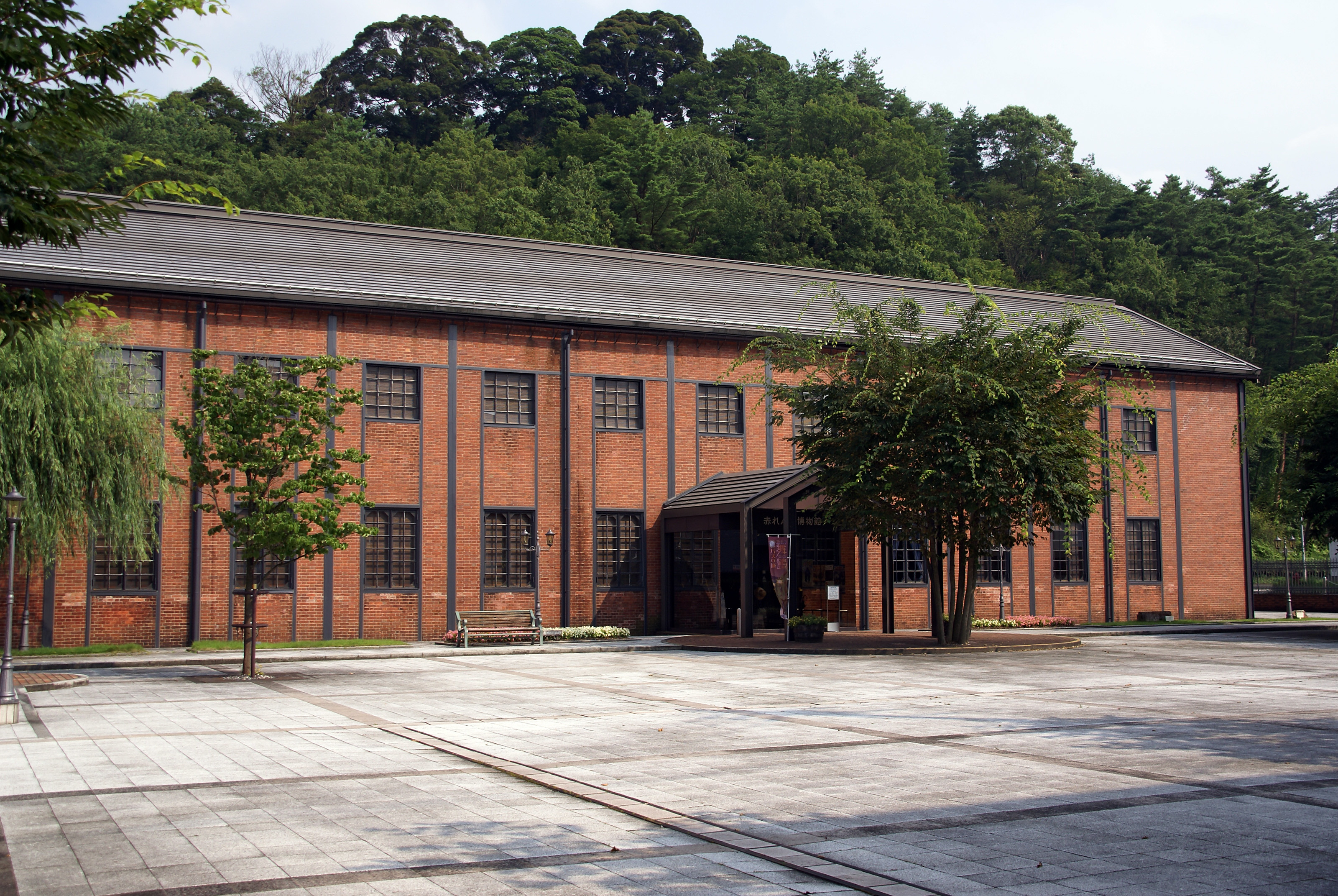 Red Brick Museum in Maizuru, Kyoto prefecture, Japan